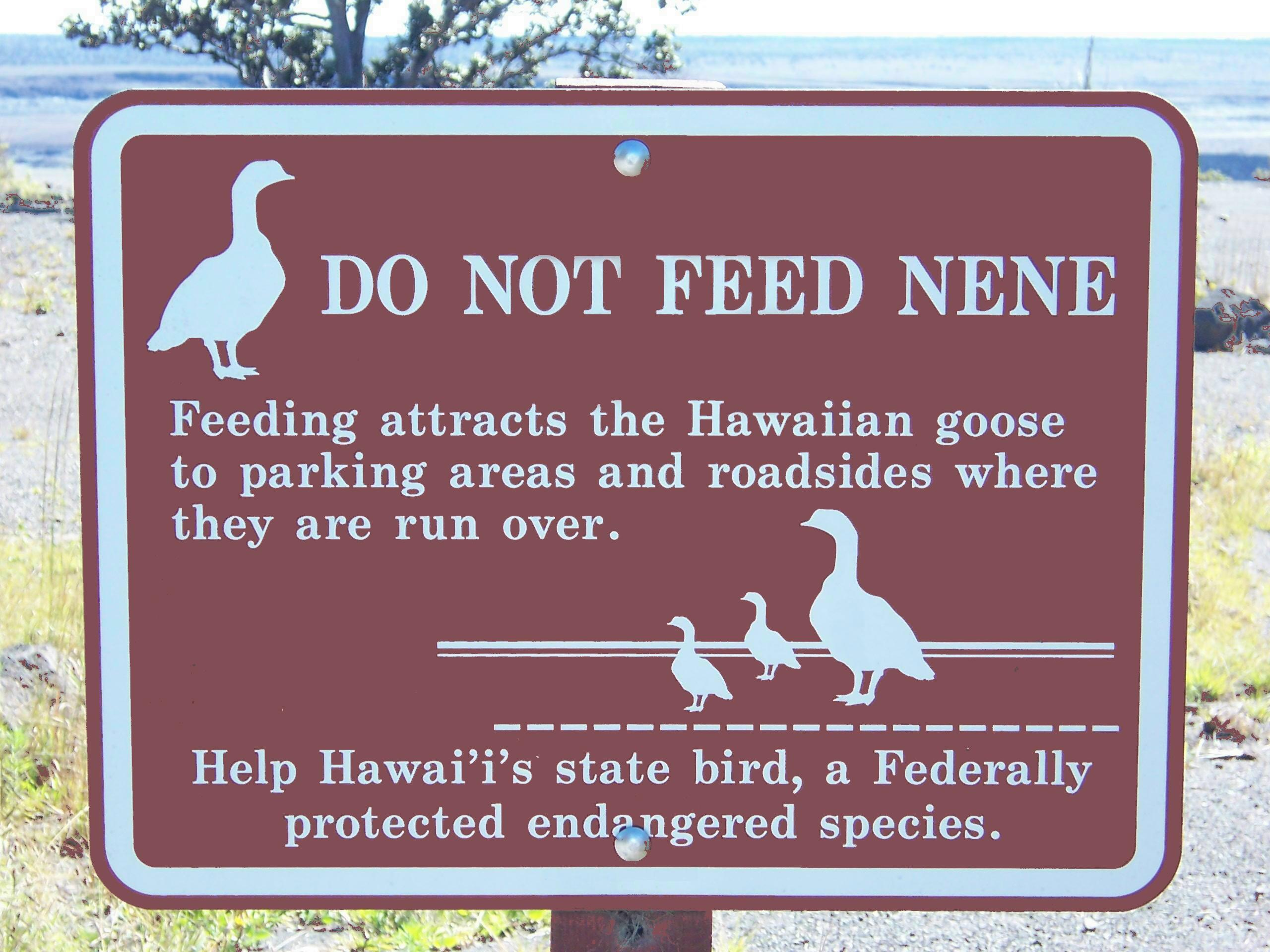 Hint: Do not feed Nene